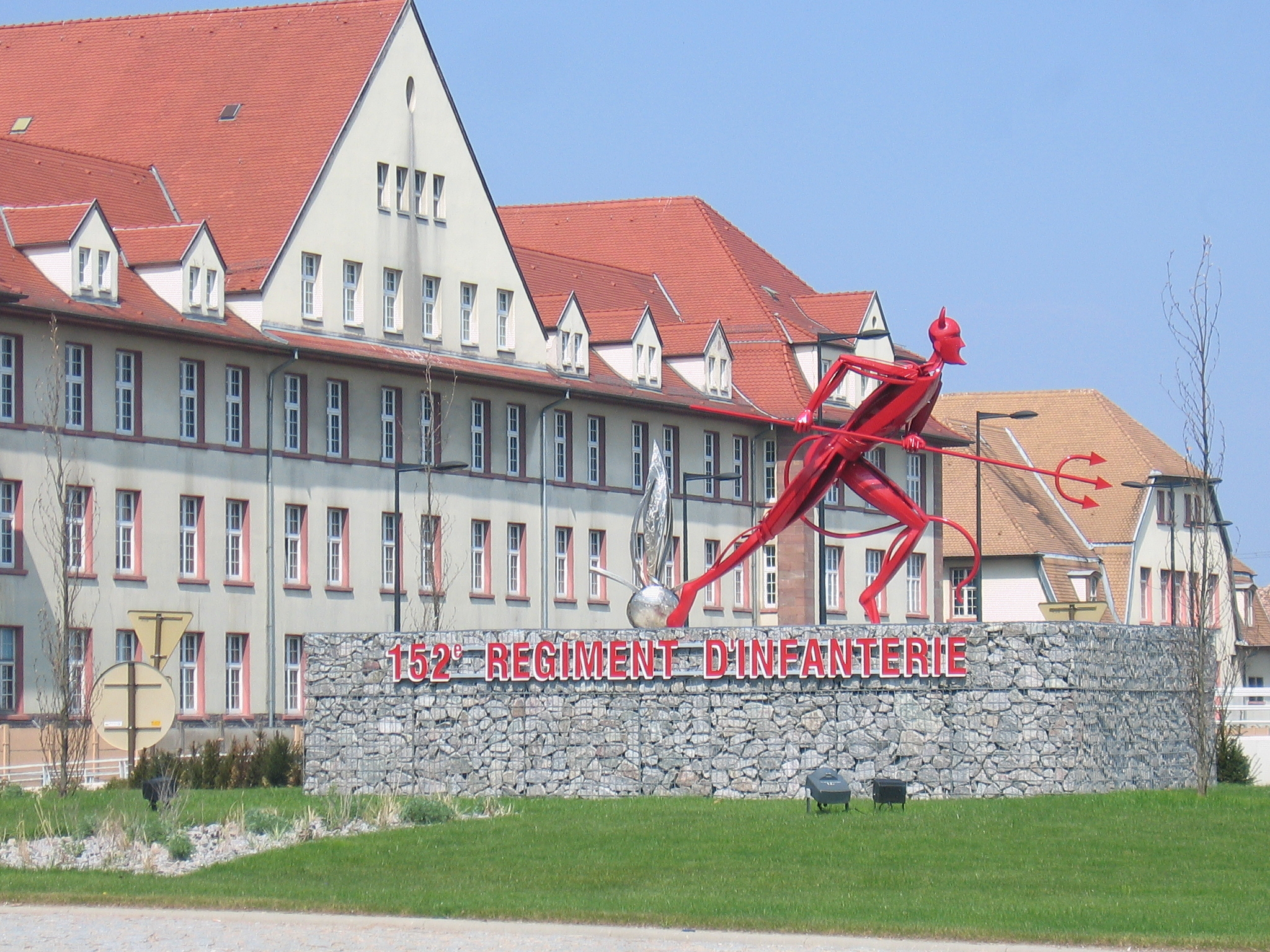 Statue of a red devil in honor of the 90th anniversary of the 152nd Infantry Regiment of Colmar (Haut-Rhin, France).